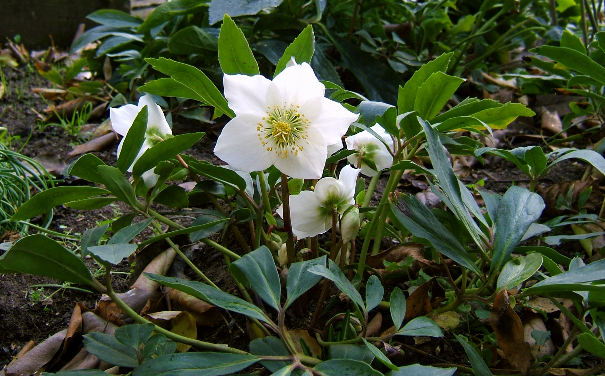 Christmas rose, Black hellebore